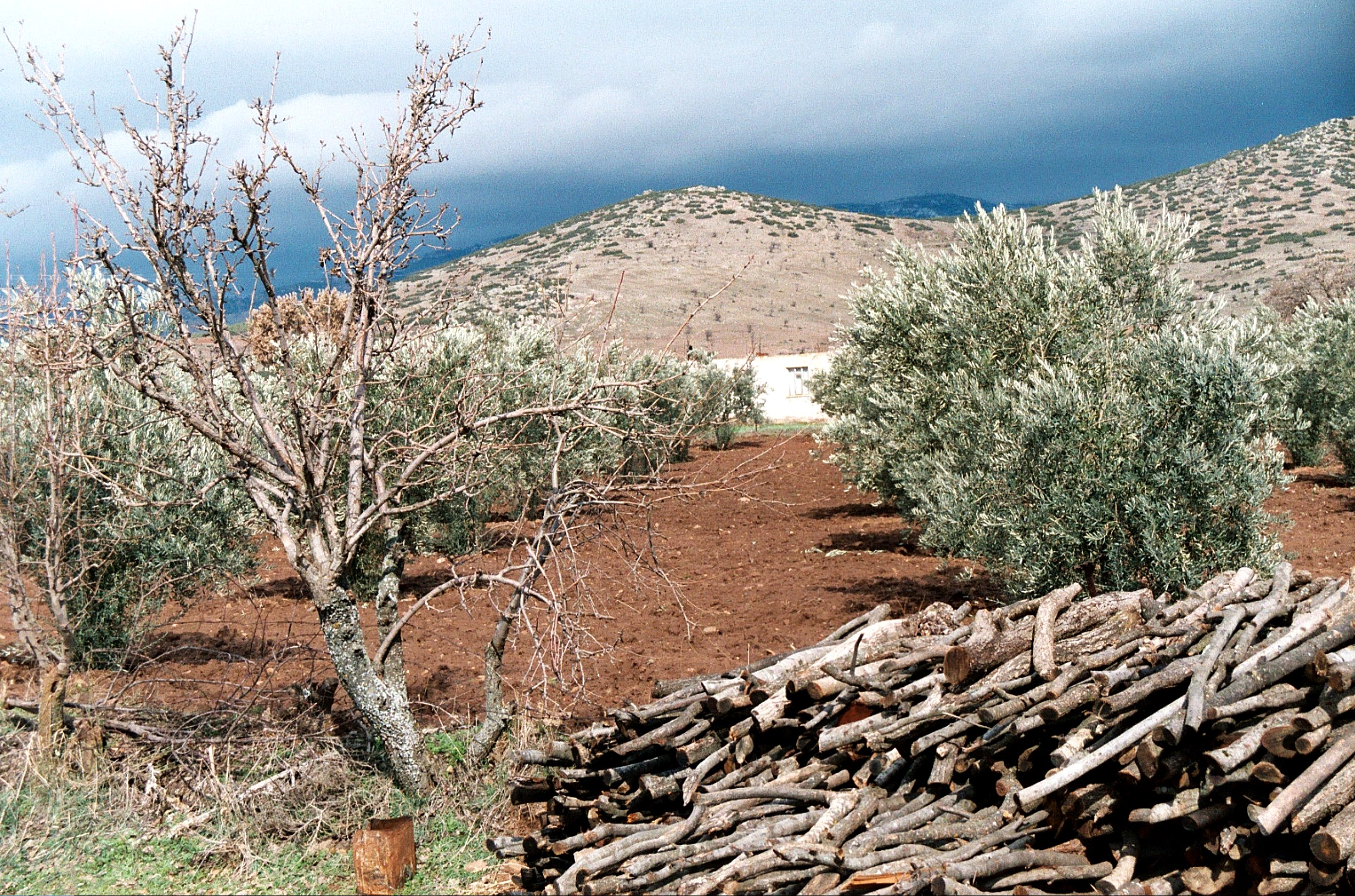 Geyre, landscape around of the village